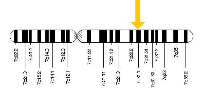 FOXP2 gene. Cytogenetic Location: 7q31 The FOXP2 gene is located on the long (q) arm of chromosome 7 at position 31. More precisely, the FOXP2 gene is located from base pair 114,086,309 to base pair 114,693,771 on chromosome 7.